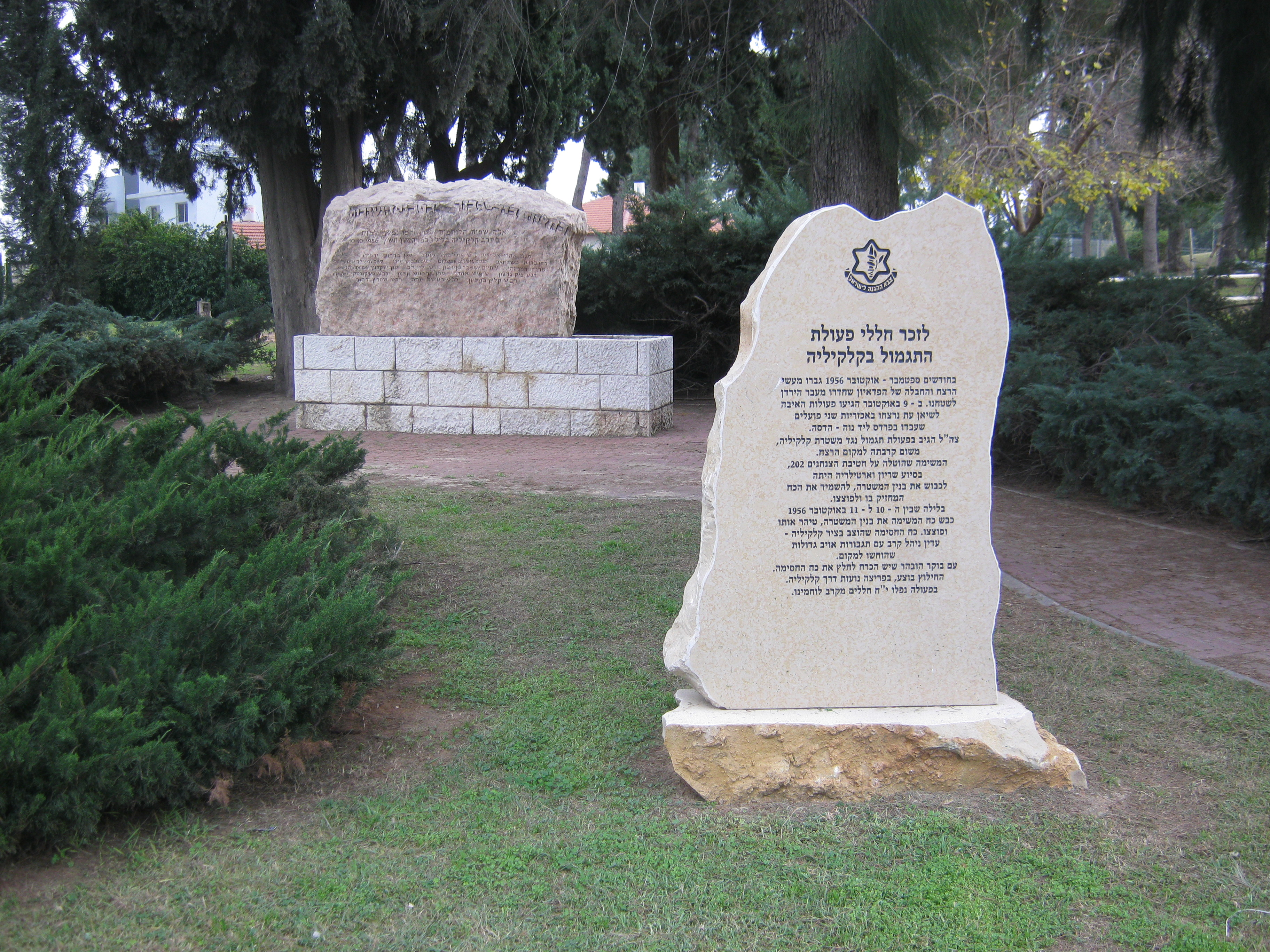 1956 Qalqilya Reprisal Operation Memorial, Kefar Saba